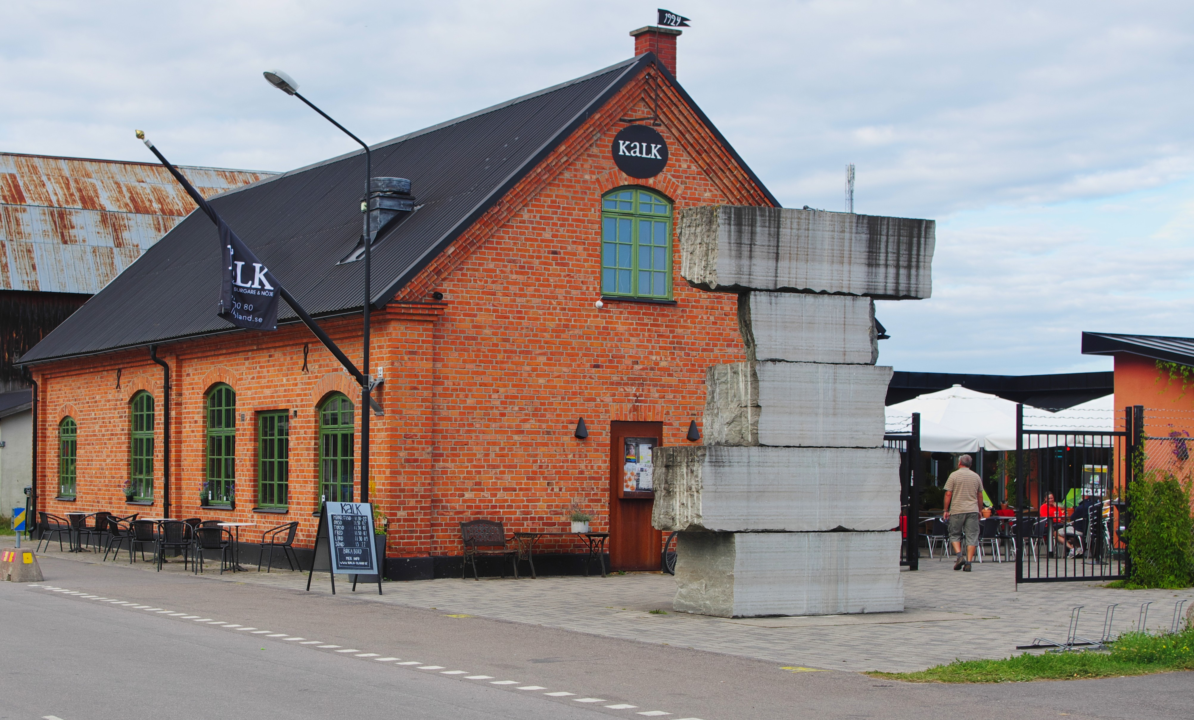 Löttorp, village in Borgholm municipality on Öland in Sweden.